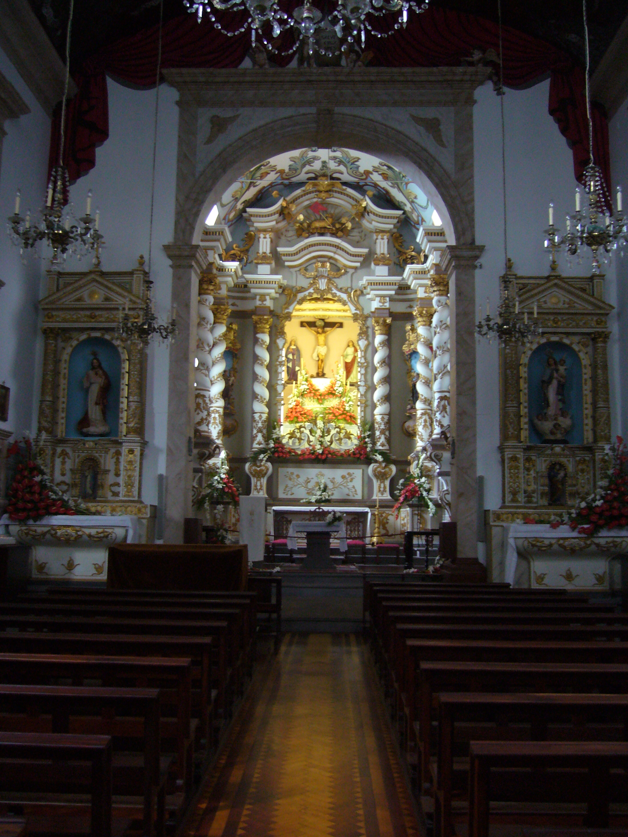 Interior of the parish church in Ponta Delgada (Madeira)